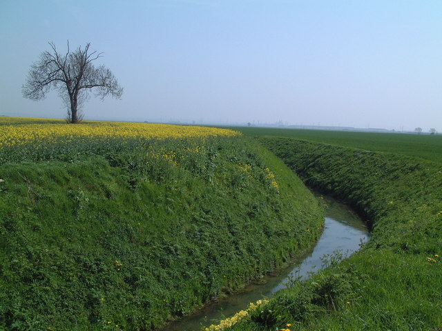 Pauper's Drain. One of the deeper drains of this low lying farmland, this one is pumped into the River Trent opposite Flixborough.